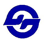 Fukusaki Hyogo chapter